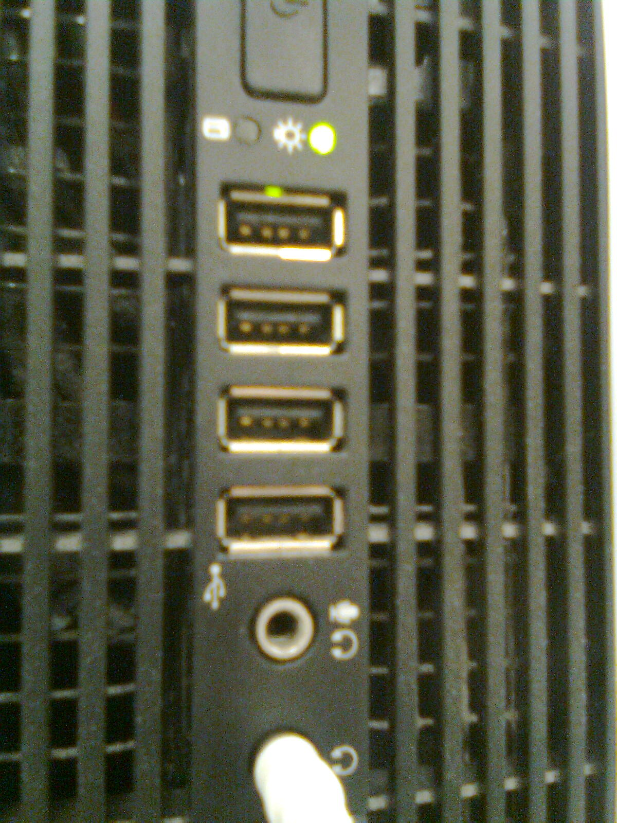 USB socket